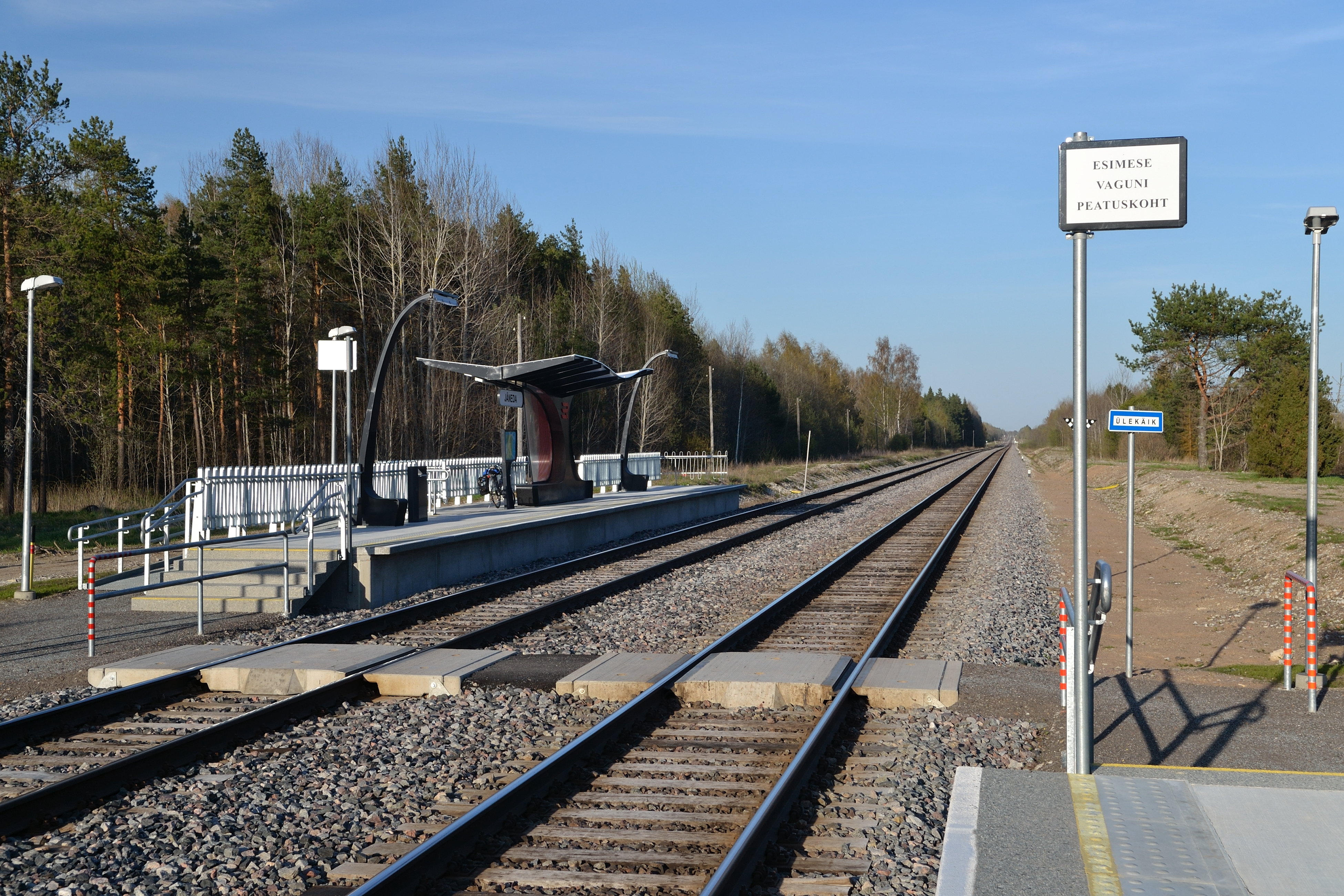 Jäneda railway station